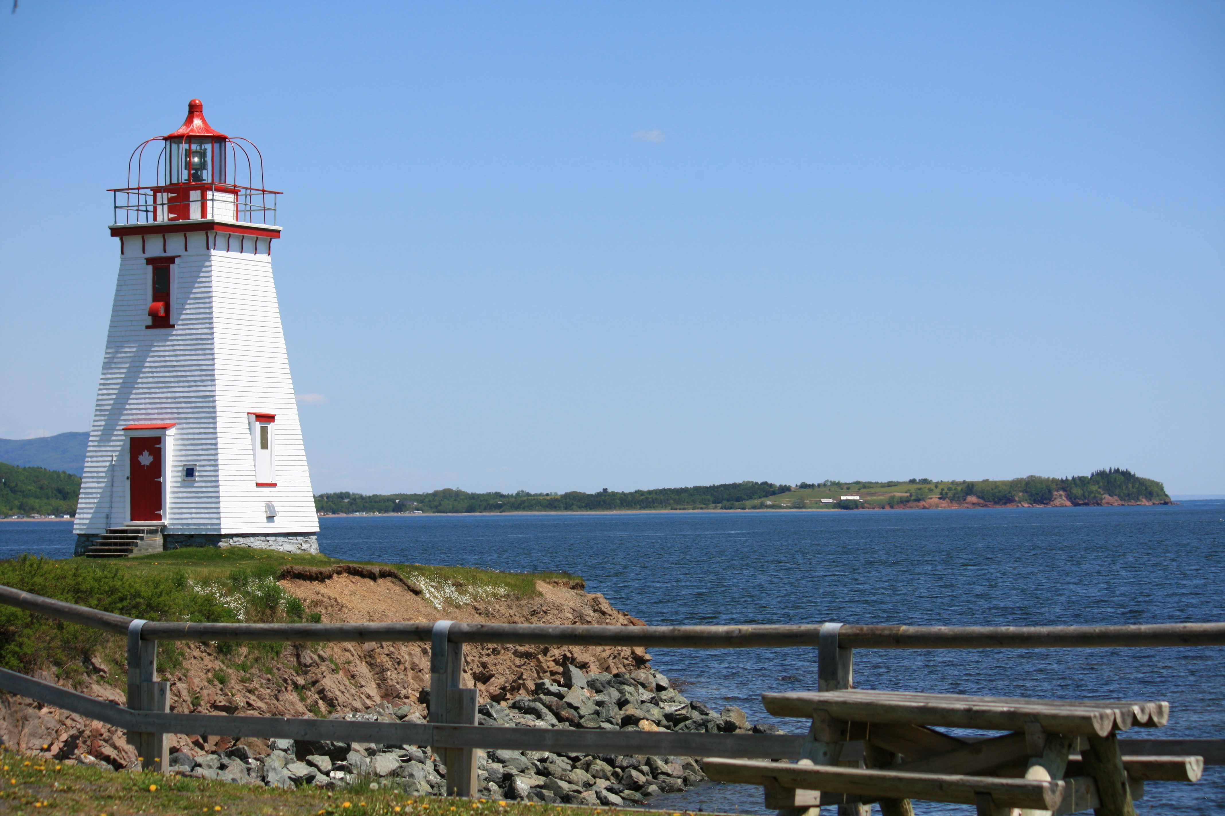 "This 1870 lighthouse stands on a point with a panoramic view of Chaleur Bay. Originally called the Bon Ami Point Light, it was converted to a range light in 1972 and is still active. The original wooden, salt-shaker tower has a unique ‘birdcage’ lantern. One of the longest combined fresh and saltwater sandbar in the world is located nearby." Dalhousie, New Brunswick. Quebec in the background.